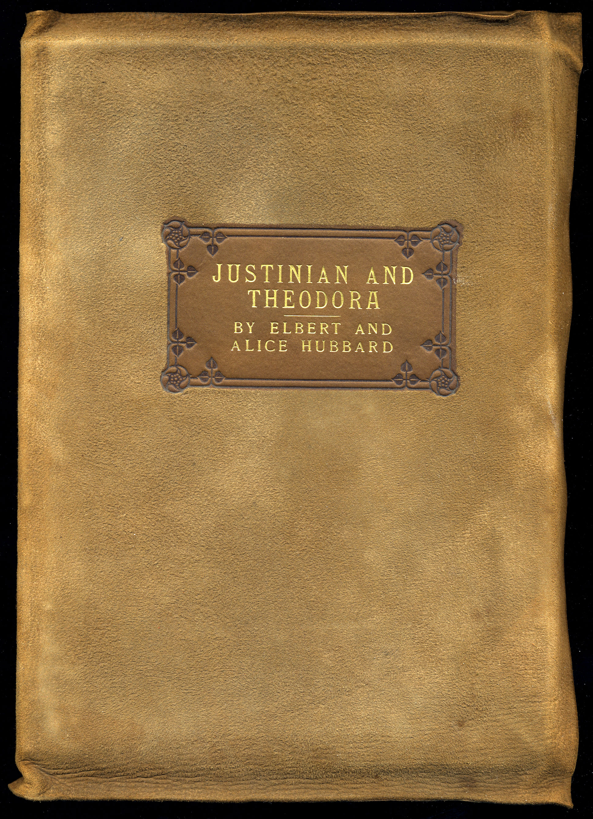 Printed by the Roycrofters in East Aurora, New York